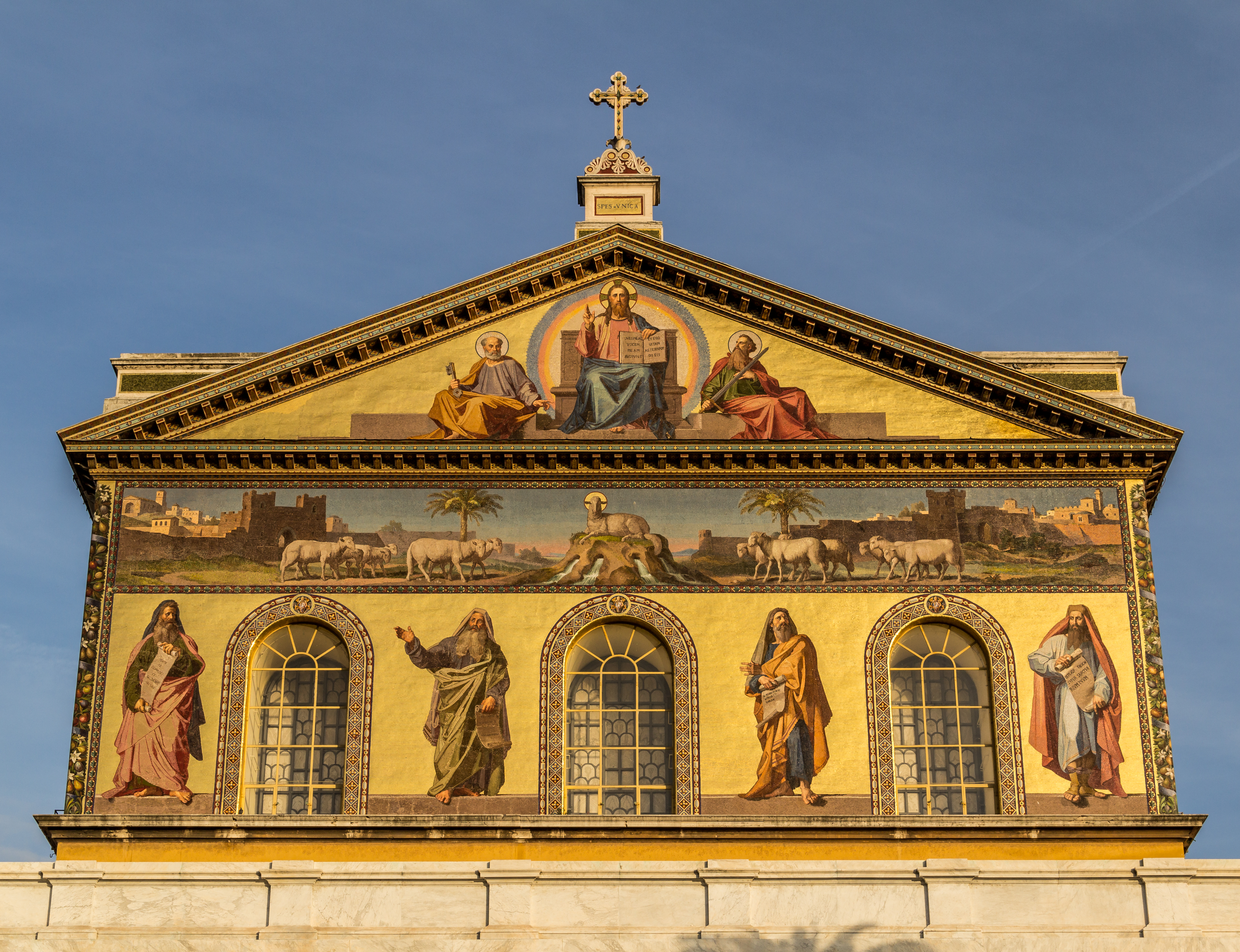 Basilica of Saint Paul Outside the Walls, Rome, Italy